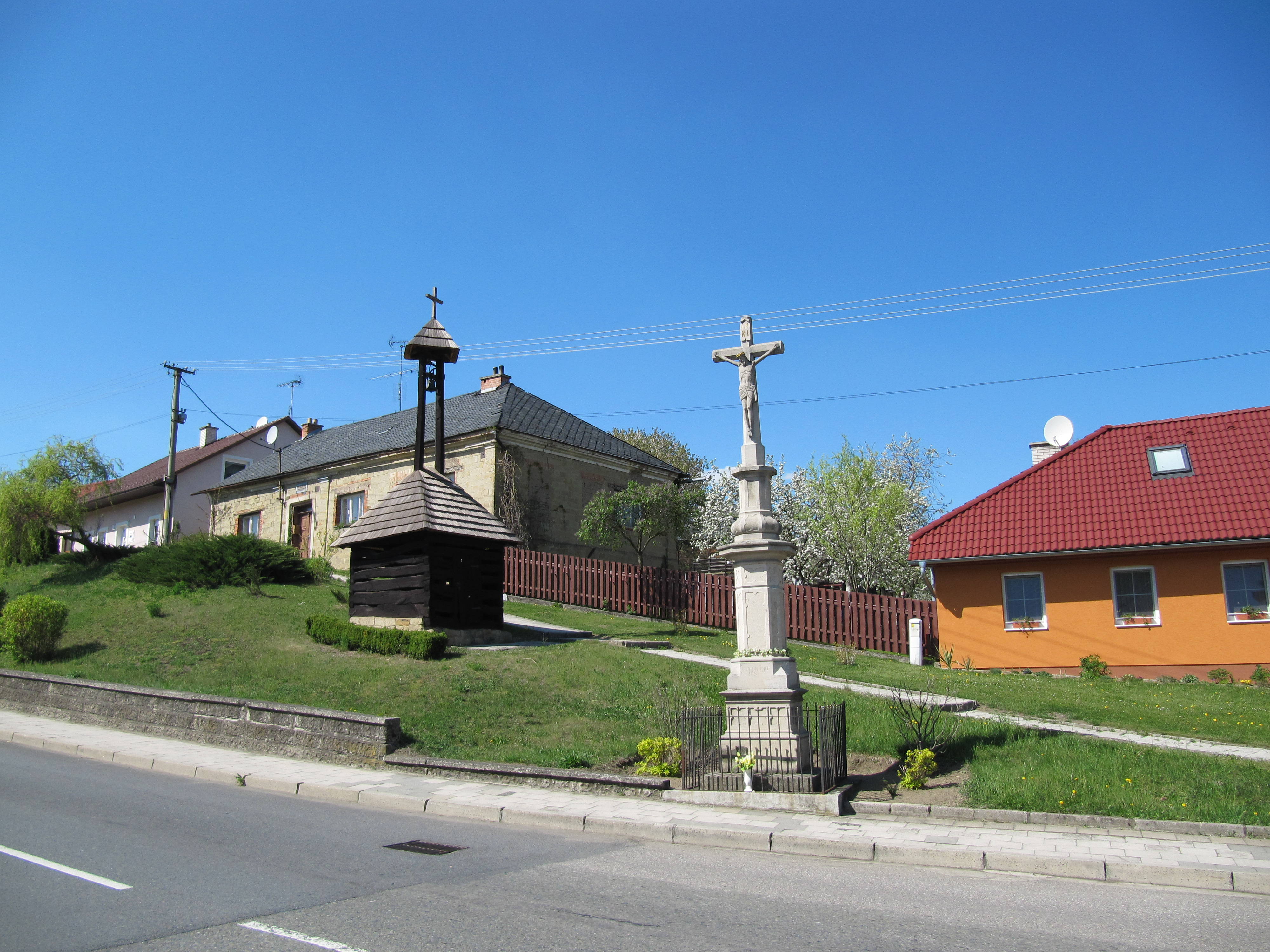 Doubravy in Zlín District, Czech Republic. Crucifix and belltower.